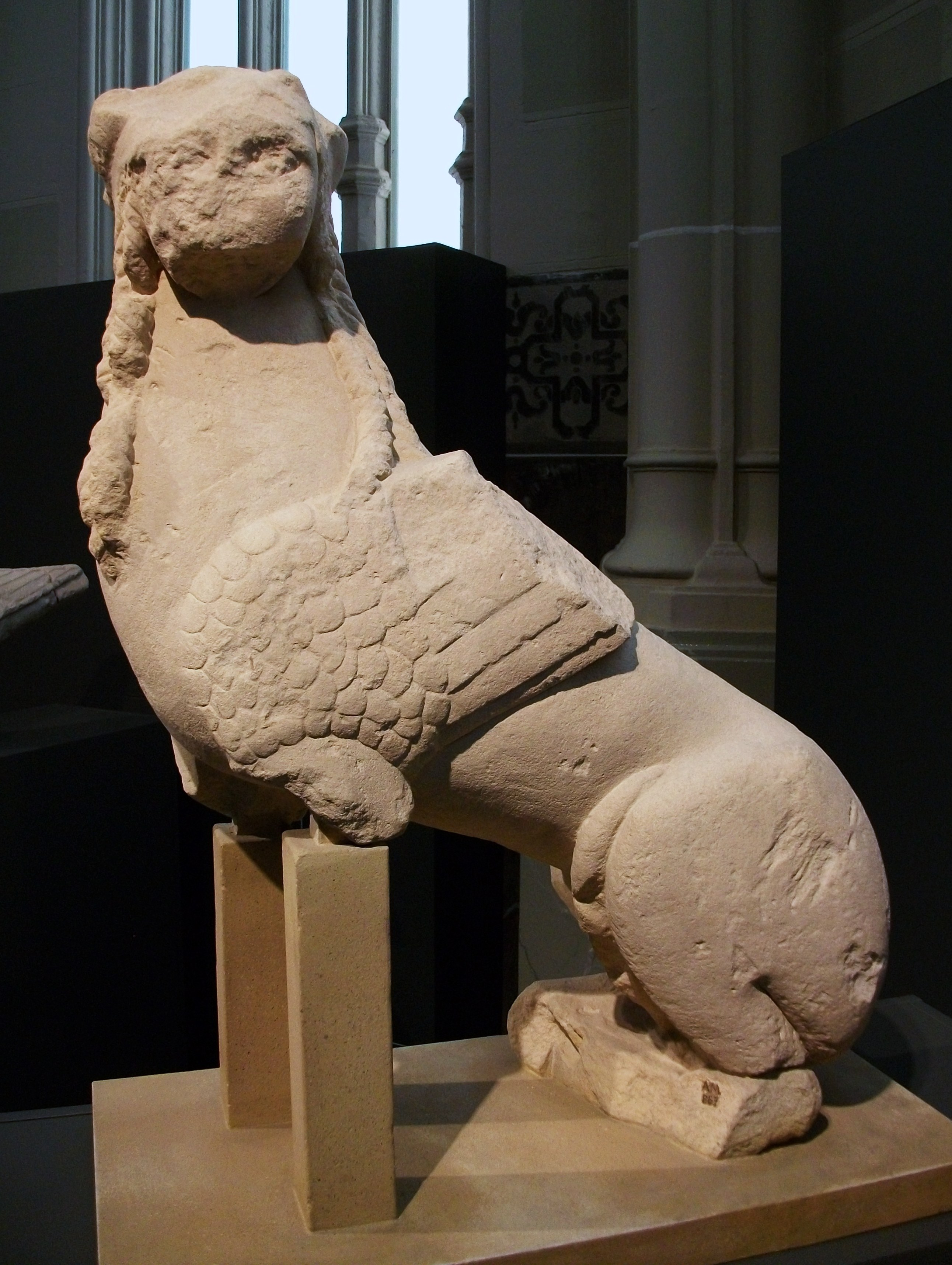 The so-called Sphinx of Agost. Iberian artwork from Agost (Alacantí, País Valencià), sculpted in limestone at the end of the 6th century BC (Iron Age II).